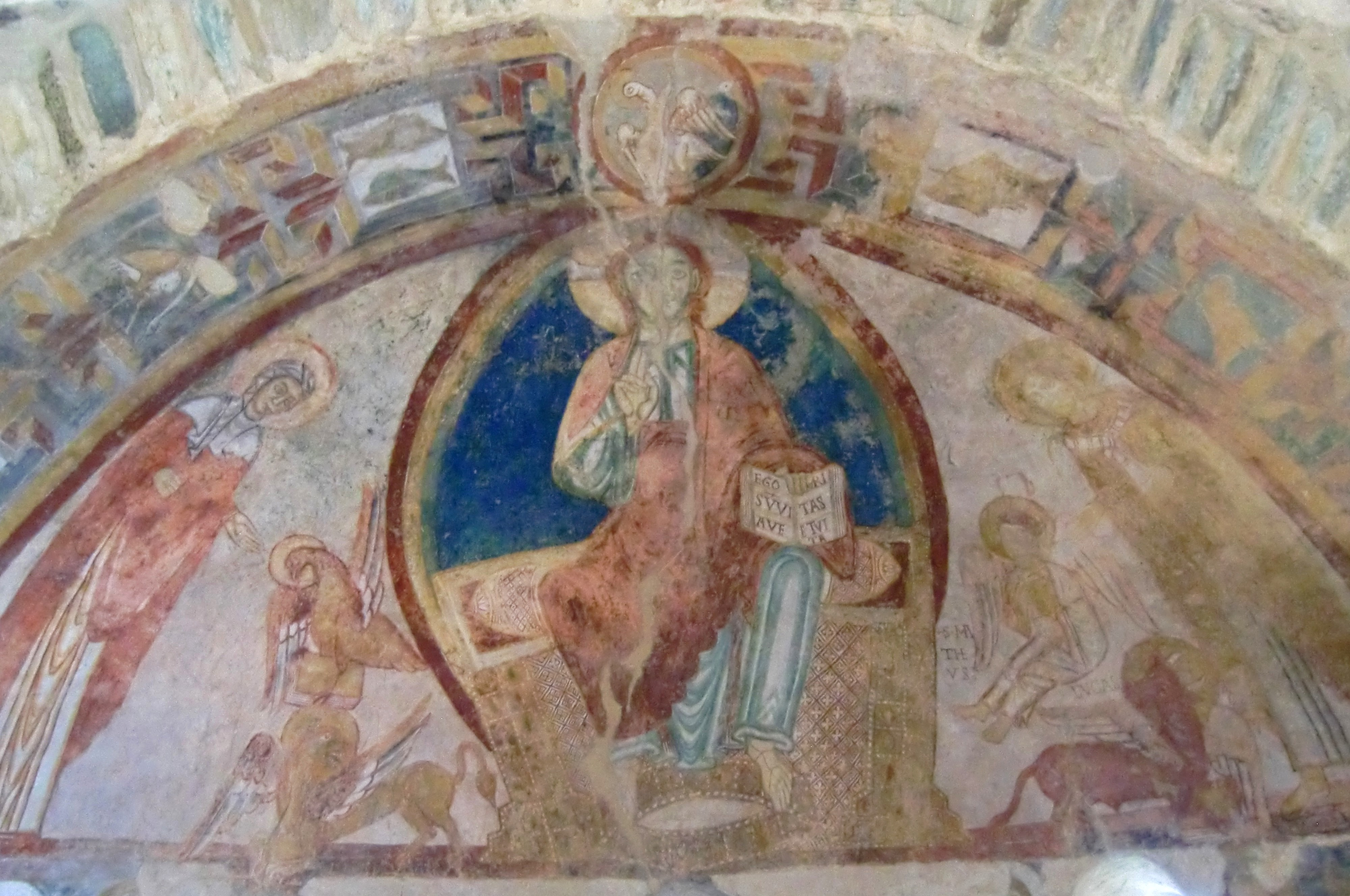 Romanesque fresco in the apse of San Ferreolo Church, Grosso (TO) XII century